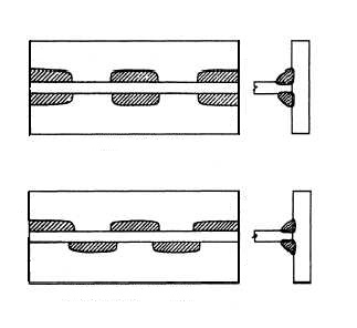 Here is the difference between chain (top) and staggered (bottom) intermittent fillet welds